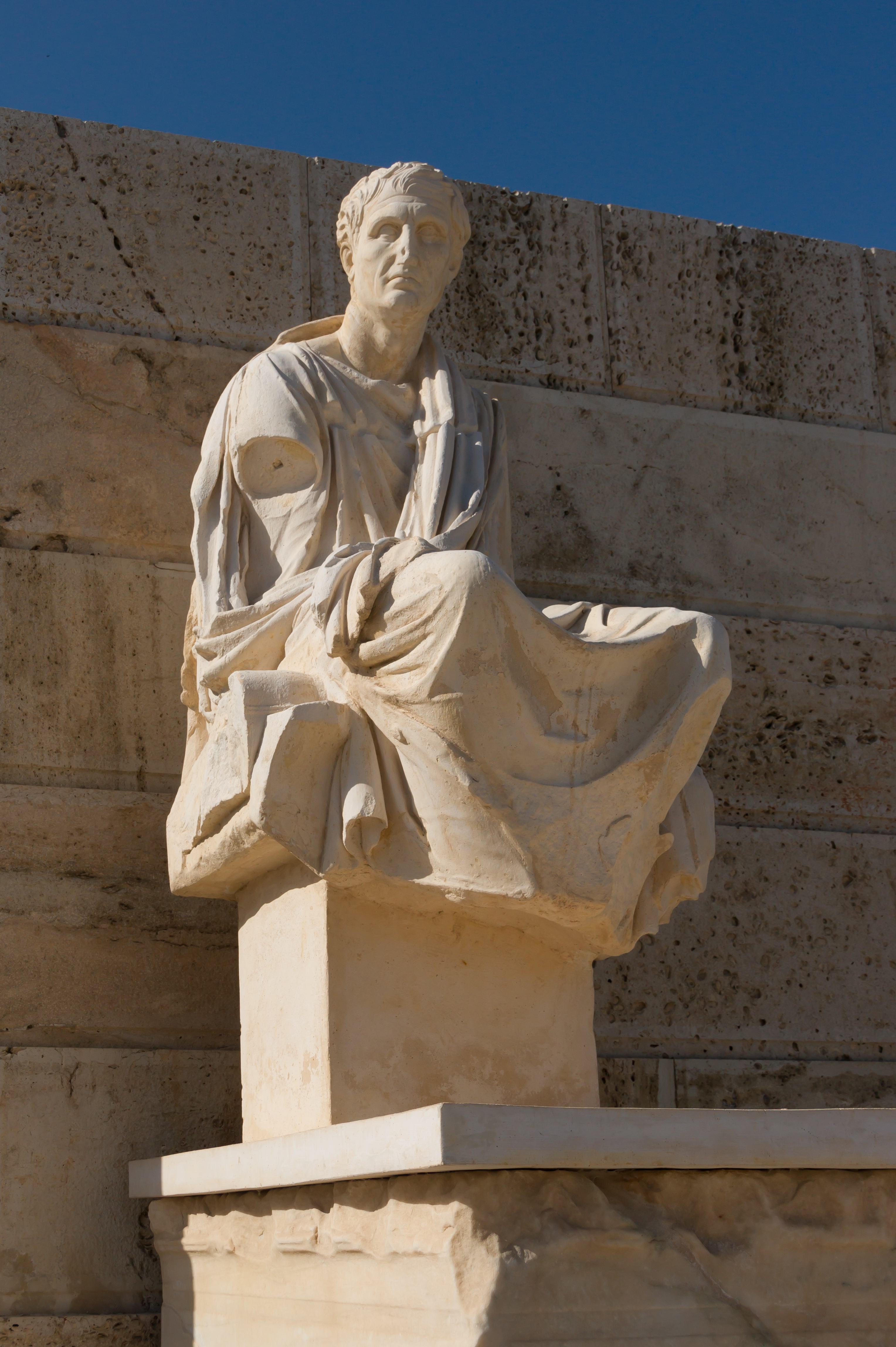 Statue to Menander, Theatre of Dionysos, Athens, Greece.